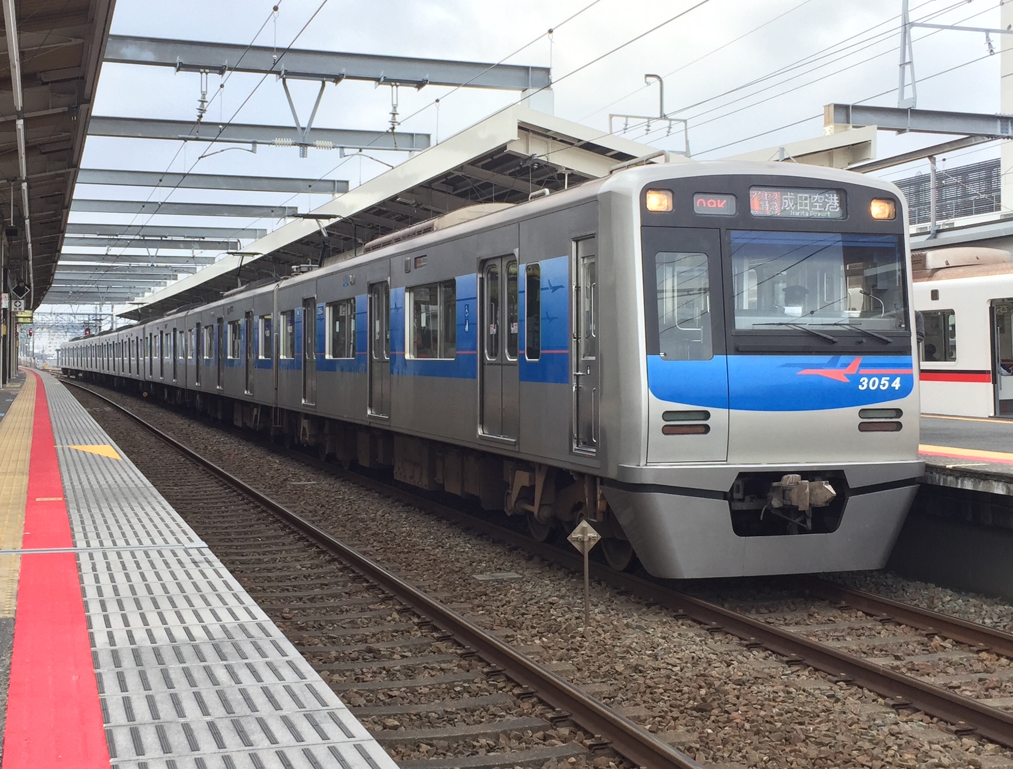 Keisei Electric Railway 3050 series EMU set 3054 at Shin-Kamagaya Station on the Hokuso Line in Chiba Prefecture, Japan